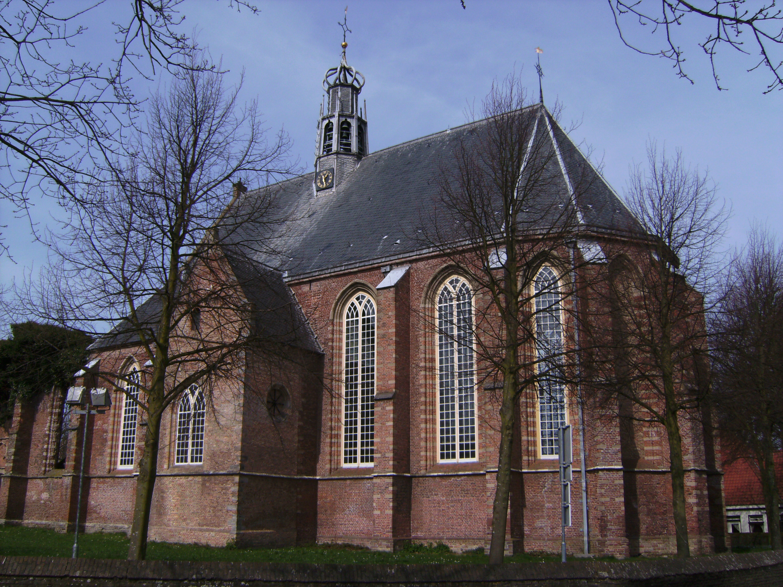 Bergen, church: Ruïnekerk